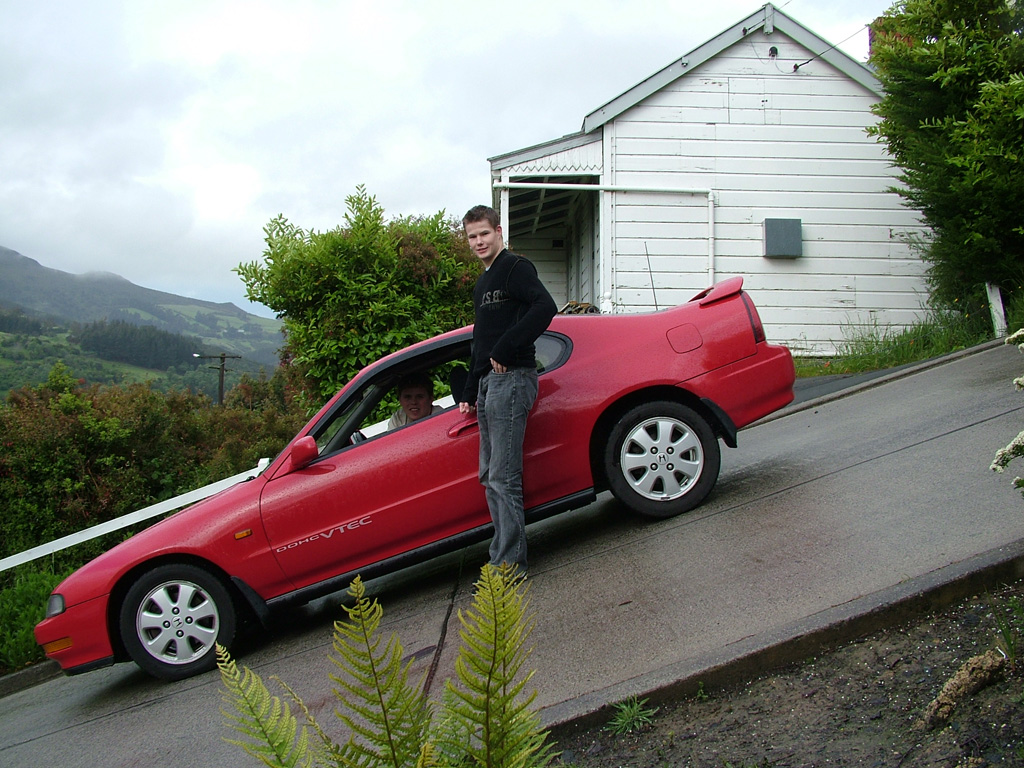 Car parked at the steepest section of the street. Baldwin Street, Dunedin, New Zealand.